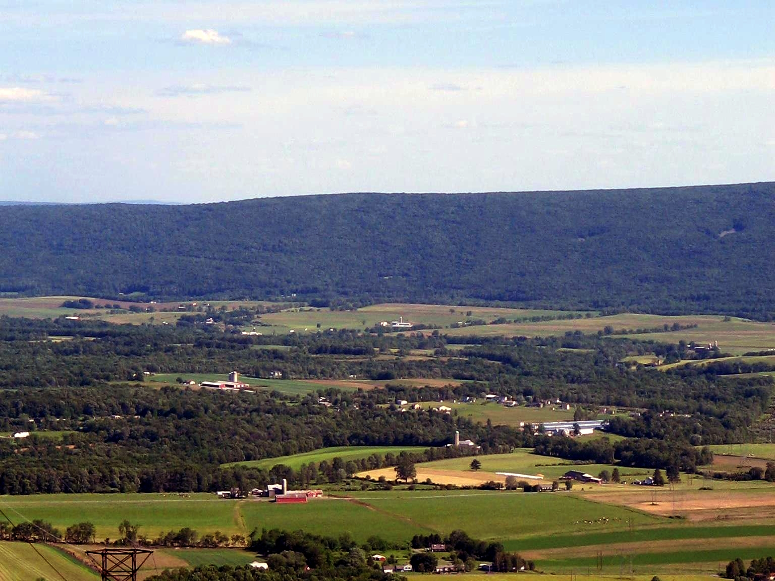 White Deer Hole Valley, Washington Township, Lycoming County, Pennsylvania, USA (taken from PA Route 554 on Bald Eagle Mountain looking south)